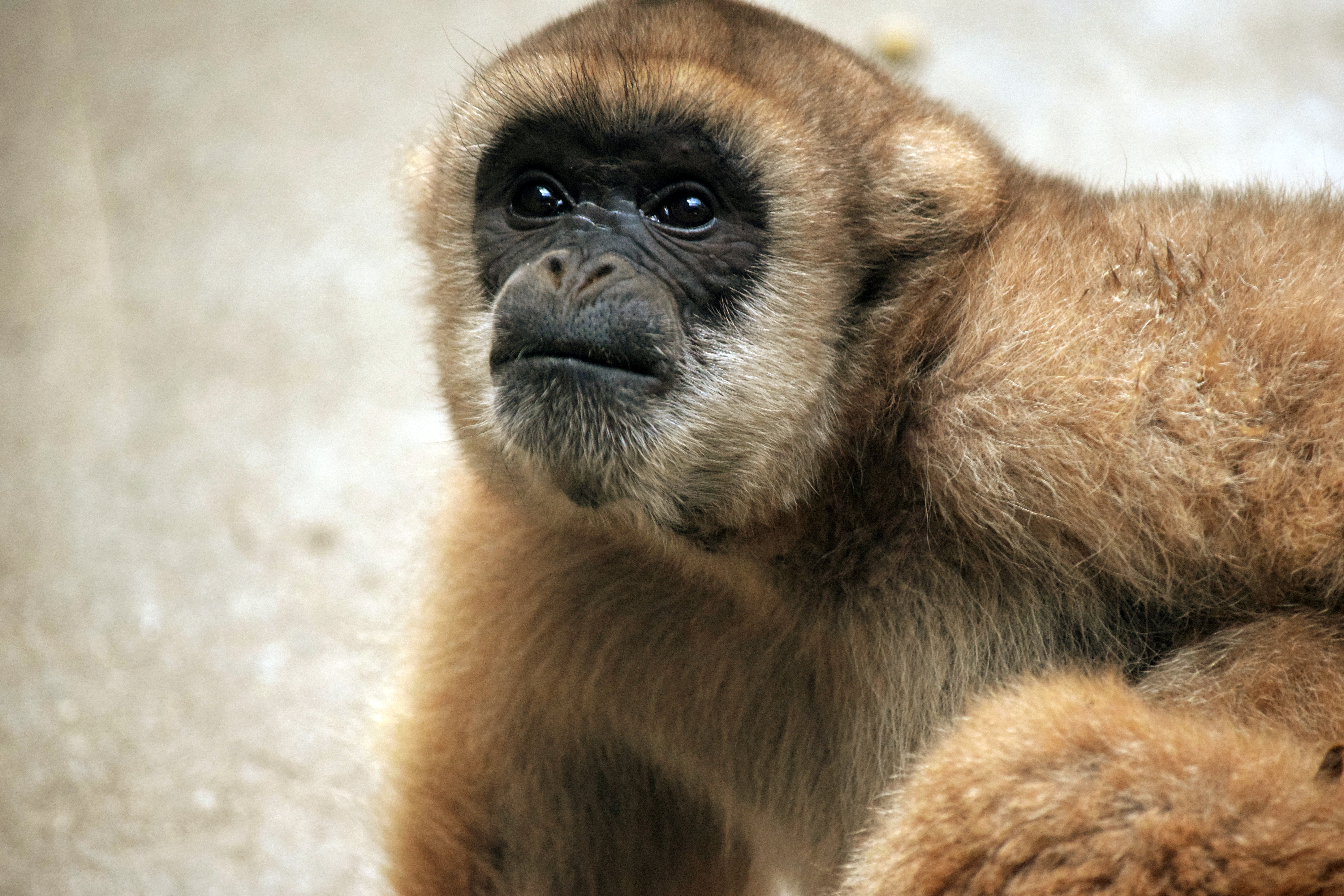 A Southern muriqui (Brachyteles arachnoides) in São Paulo Zoo, Brazil.